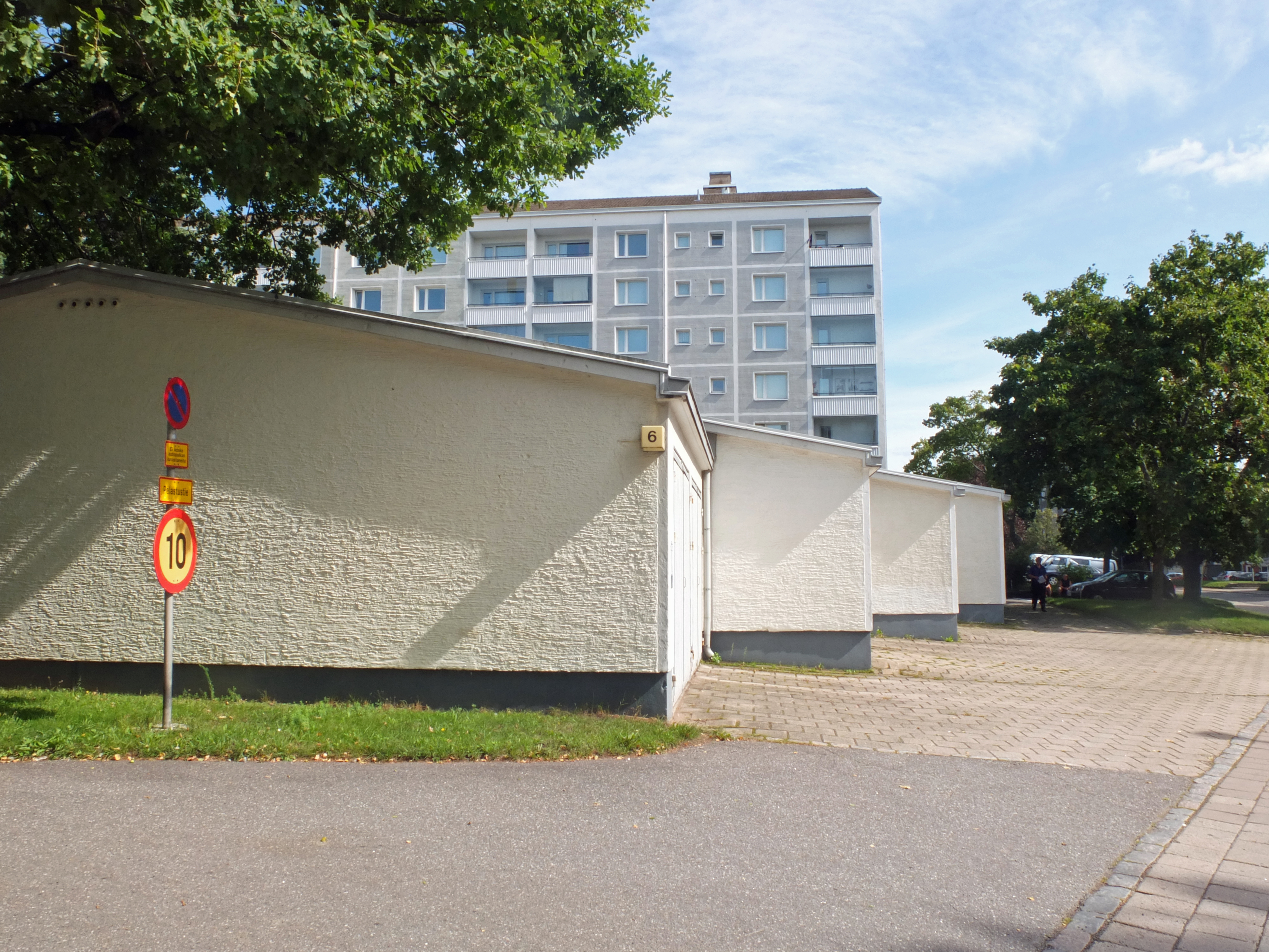 1950s housing on Kanslerintie, Patterinhaka suburb, Iso-Heikkilä, Turku, Finland. August 2013.